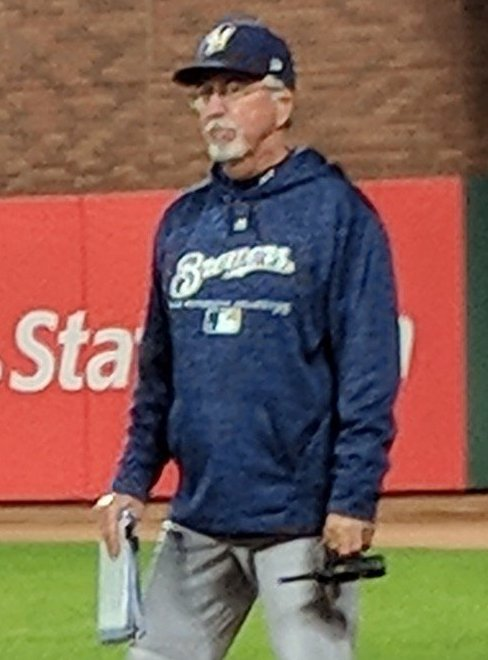 Jeremy Jeffress of the Milwaukee Brewers warms up in the bullpen at AT&T Park in San Francisco while bullpen coach Lee Tunnell (right) looks on.